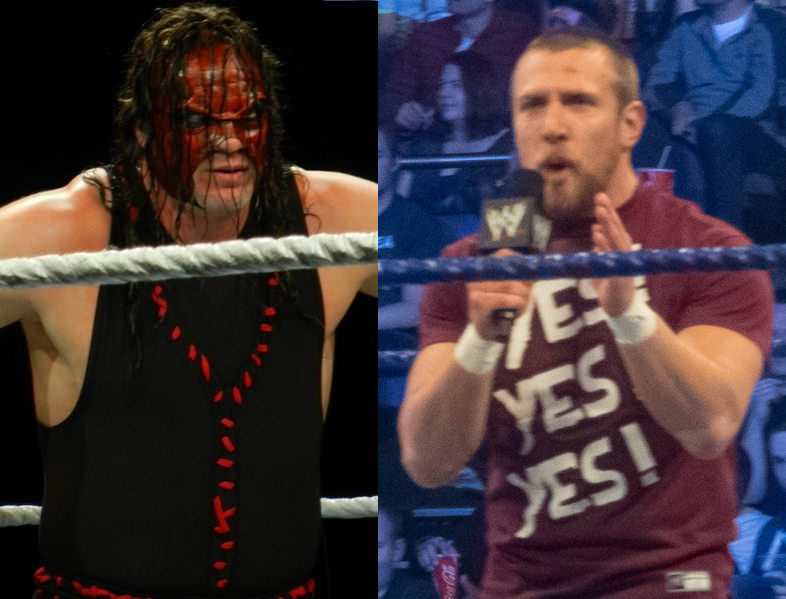 Team Hell No, Kane (left) Daniel Bryan (right).